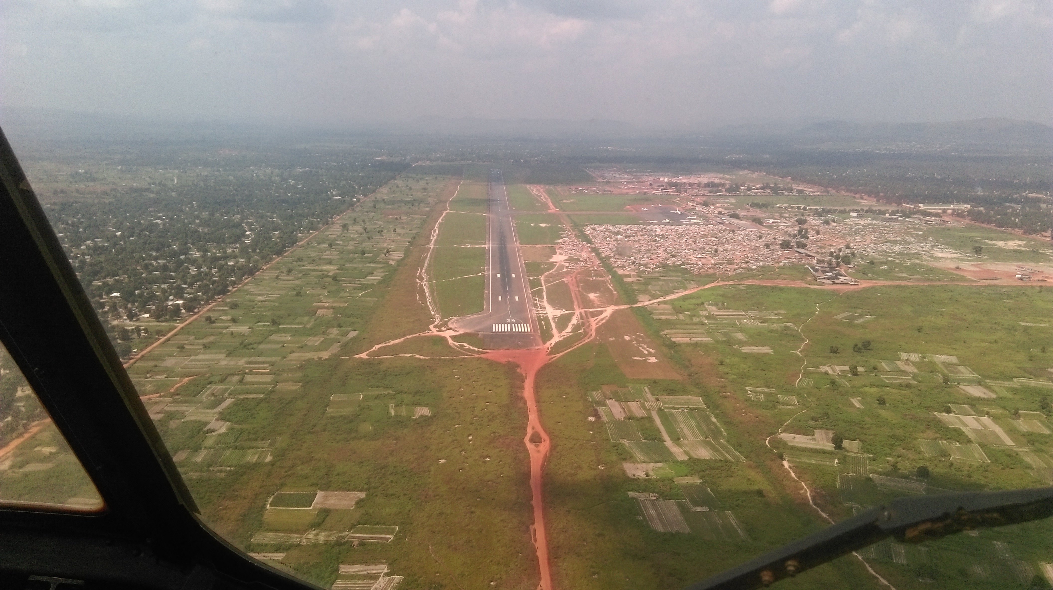 The airport still residents to some of the IDPs.